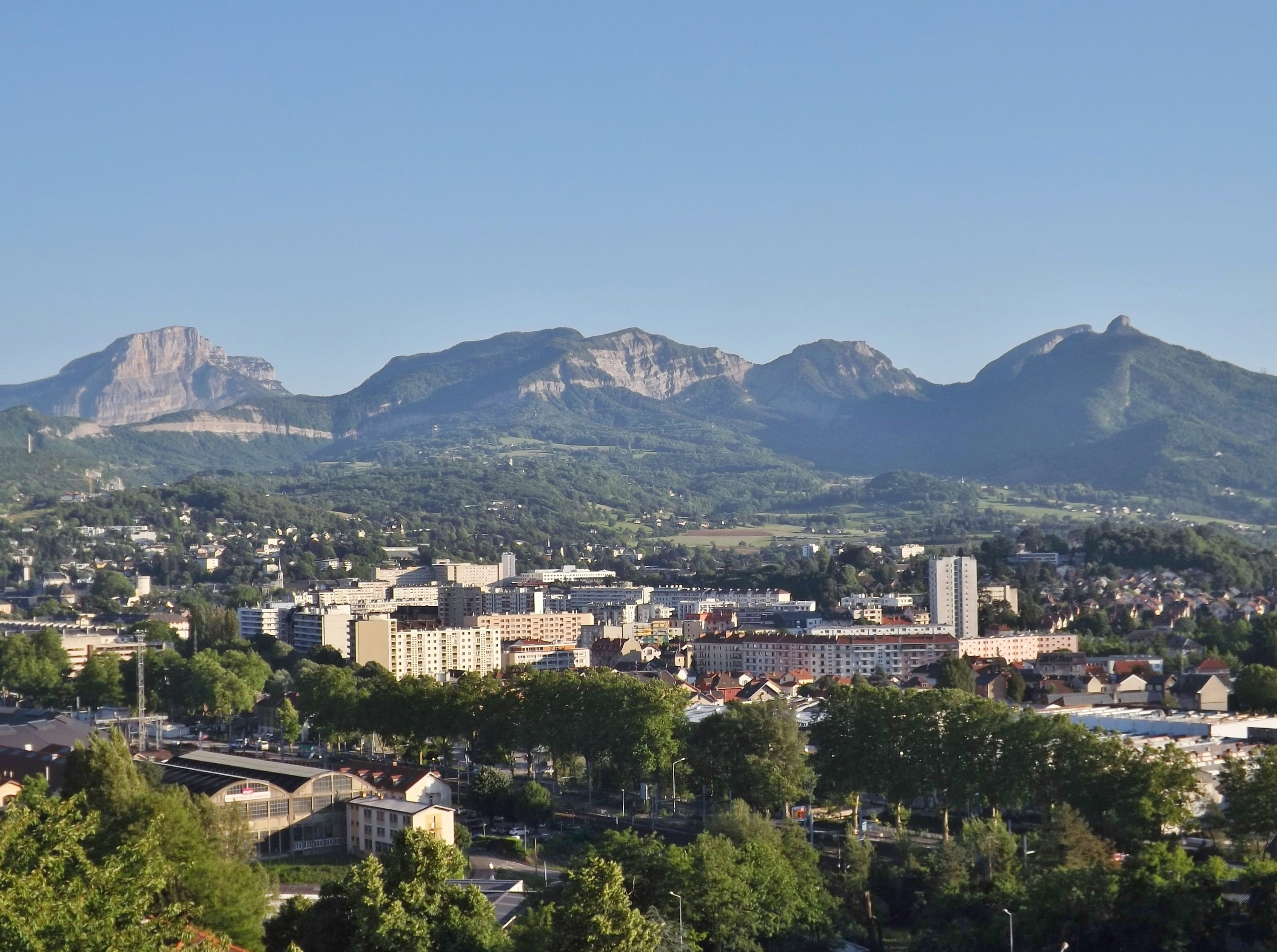 Panoramic sight of Chambéry and the Northern Chartreuse mountain range, in Savoie, France.